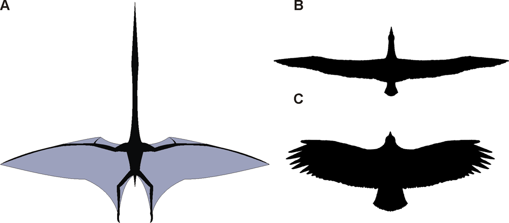 Azhdarchid wing shape. A, reconstructed planform of Quetzalcoatlus (wing shape derived from the ‘dark wing’ Rhamphorhynchus); B, planform of the dynamically soaring wandering albatross (Diomedea exulans); C, planform of the statically soaring Andean condor (Vultur gryphus). Images not to the same scale.